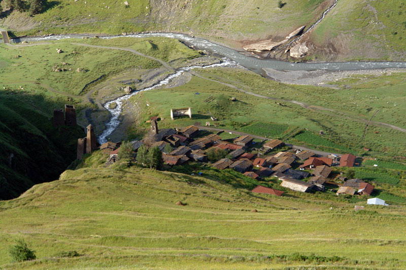 Dartlo (დართლო) and the river Didkhevi (დიდხევი), Tusheti Georgia